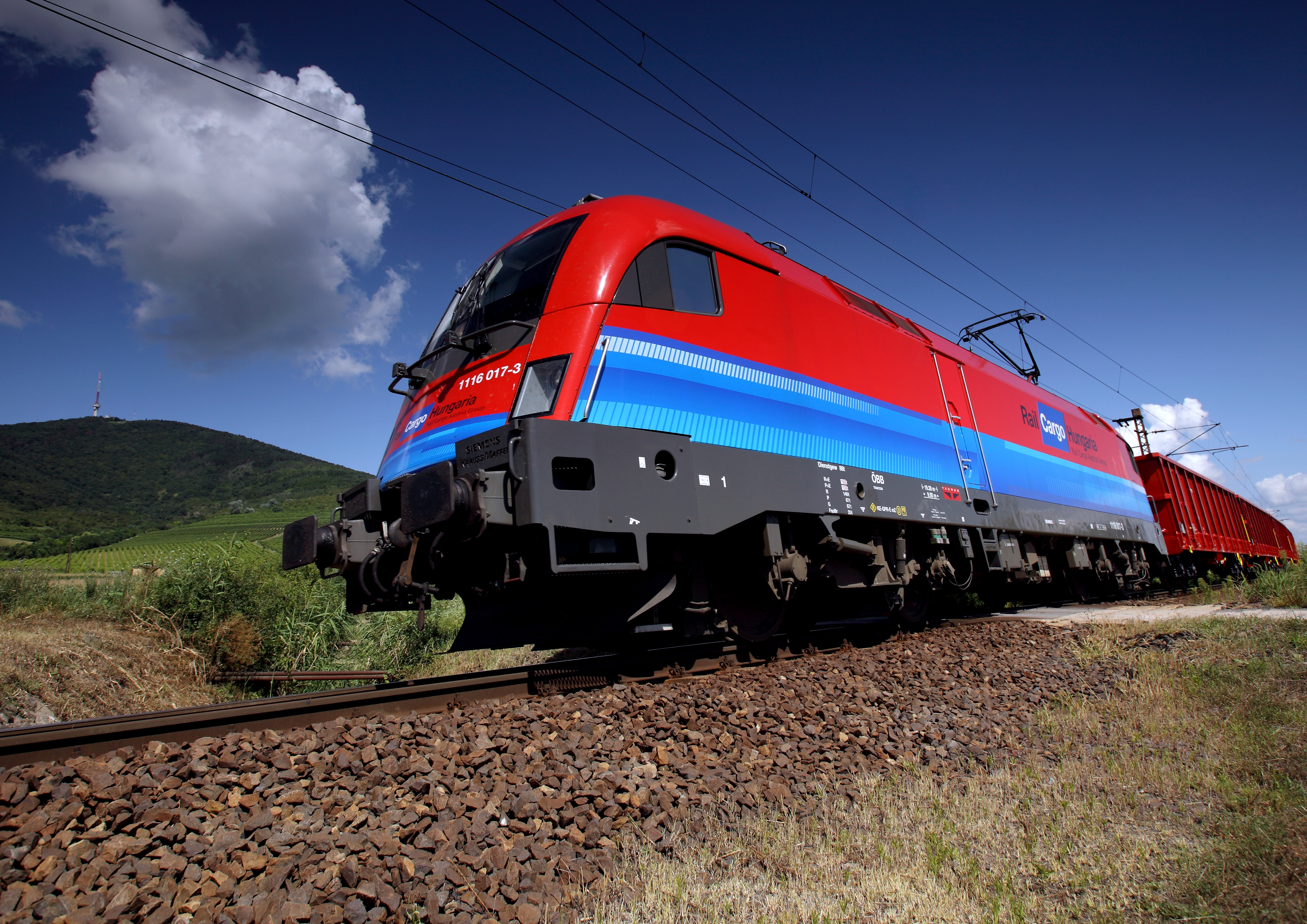 Locomotive of the Rail Cargo Hungaria under the Tokaj-hills